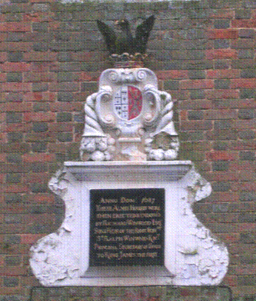 Winwood Almshouses, Quainton, Buckinghamshire: dedication plaque